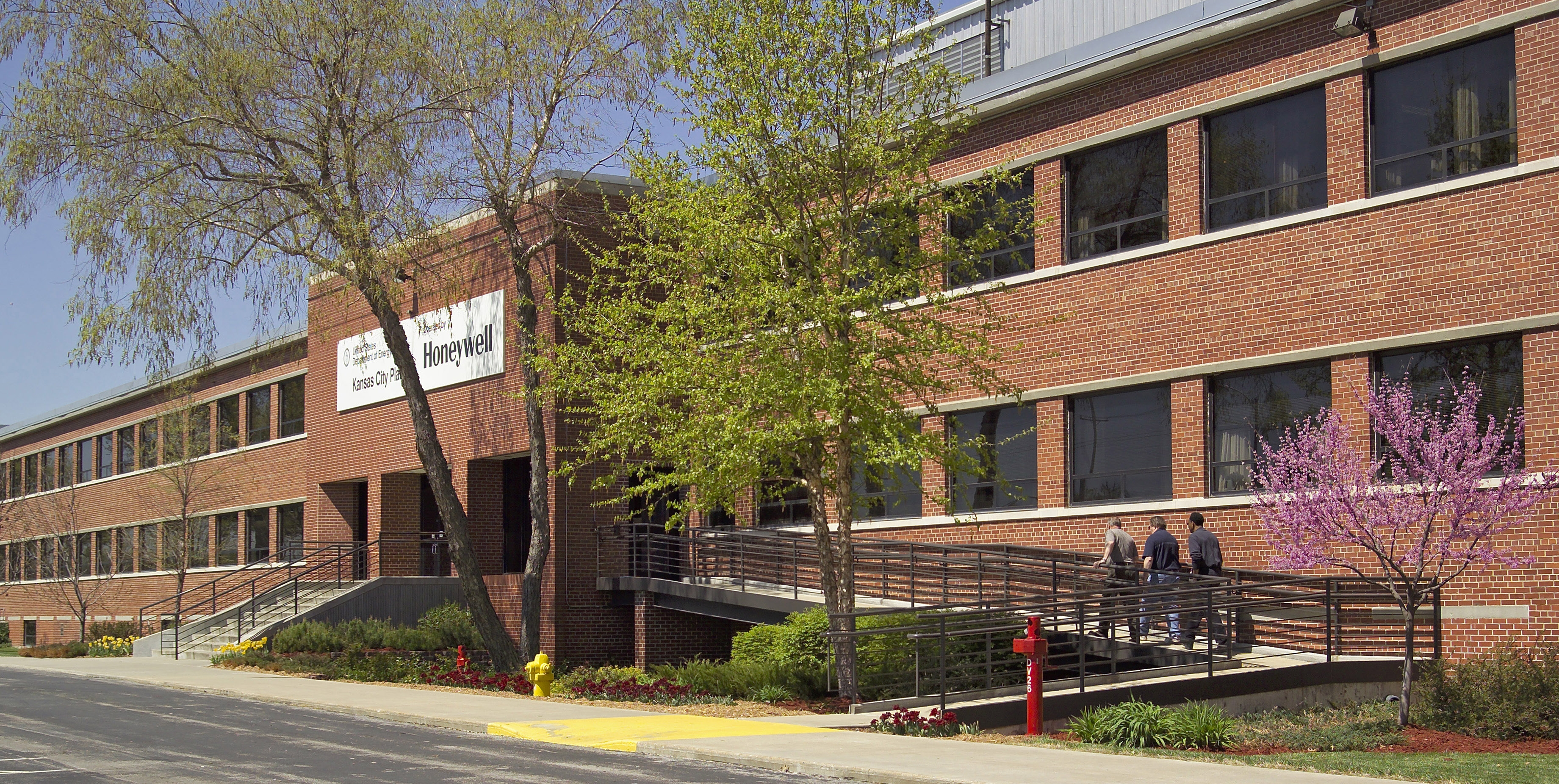 Front entrance of Kansas City Plant, November 2011.